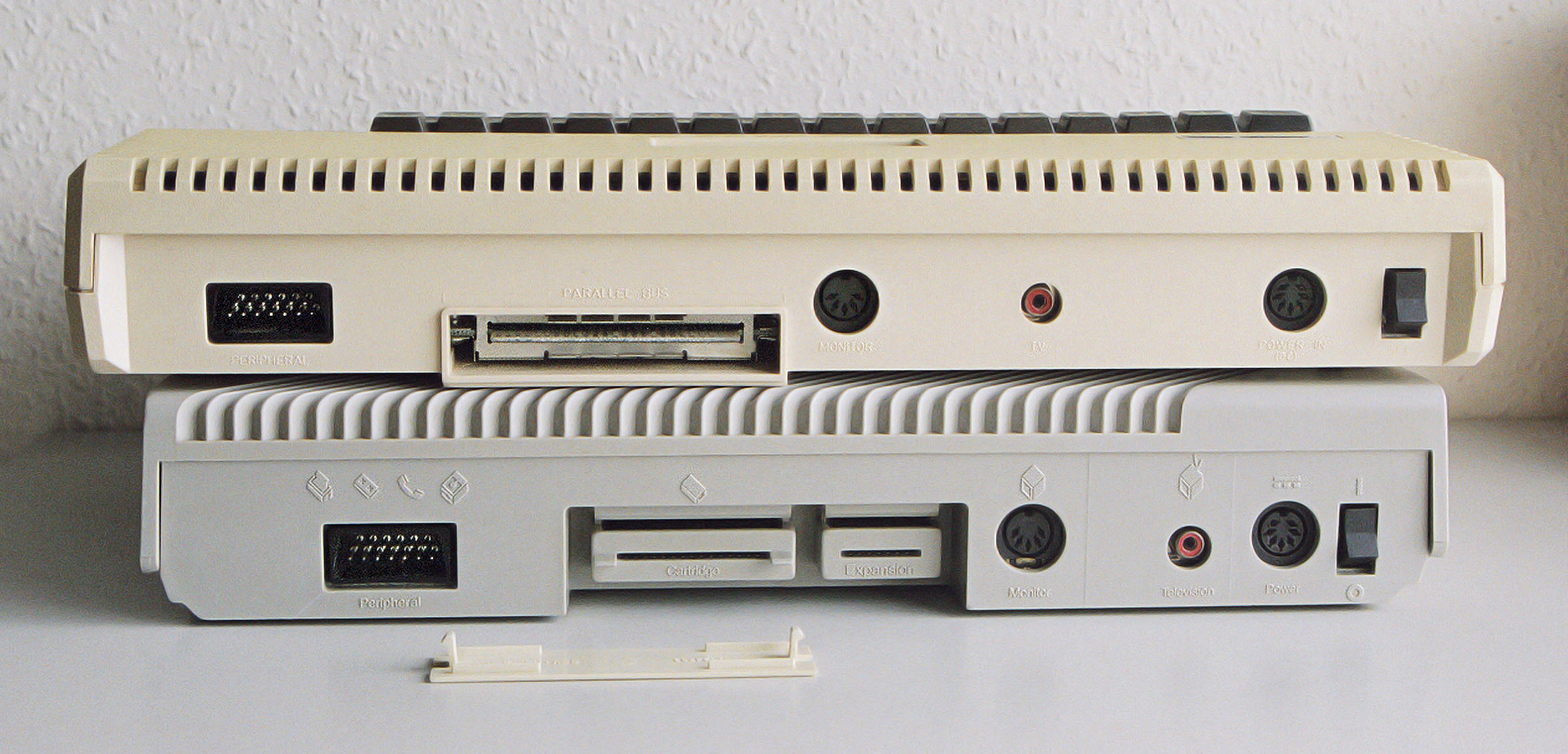 Photograph of the backs of an Atari 800XL (top) and an Atari 130XE (bottom). These are both UK PAL versions. Note that the protective cover has been removed from the 800XL's parallel bus to let you see it (removed cover is on its own at bottom of photo).